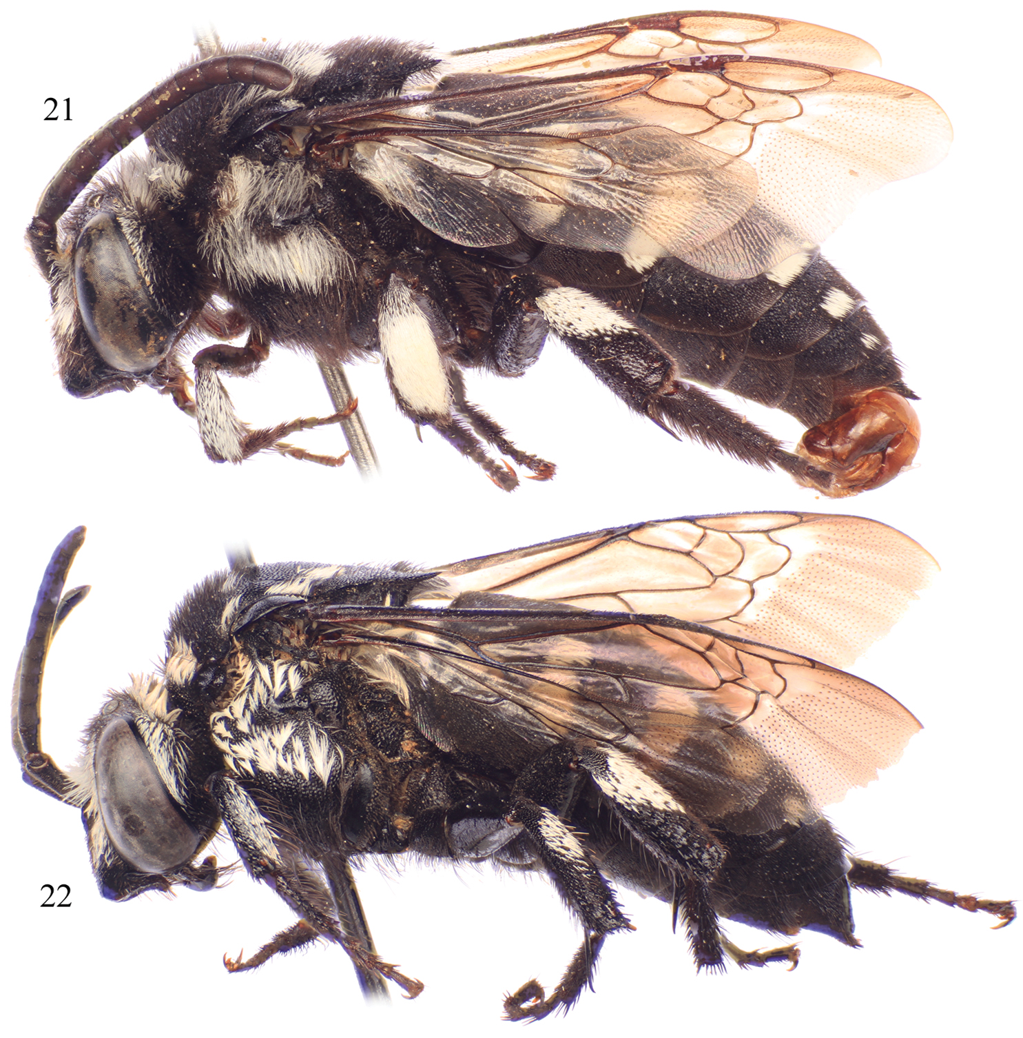 Lateral habitus of Lateral habitus of Thyreus schwarzi from São Nicolau. 21 Male 22 Female. sp. n. from São Nicolau. 21 Male 22 Female.